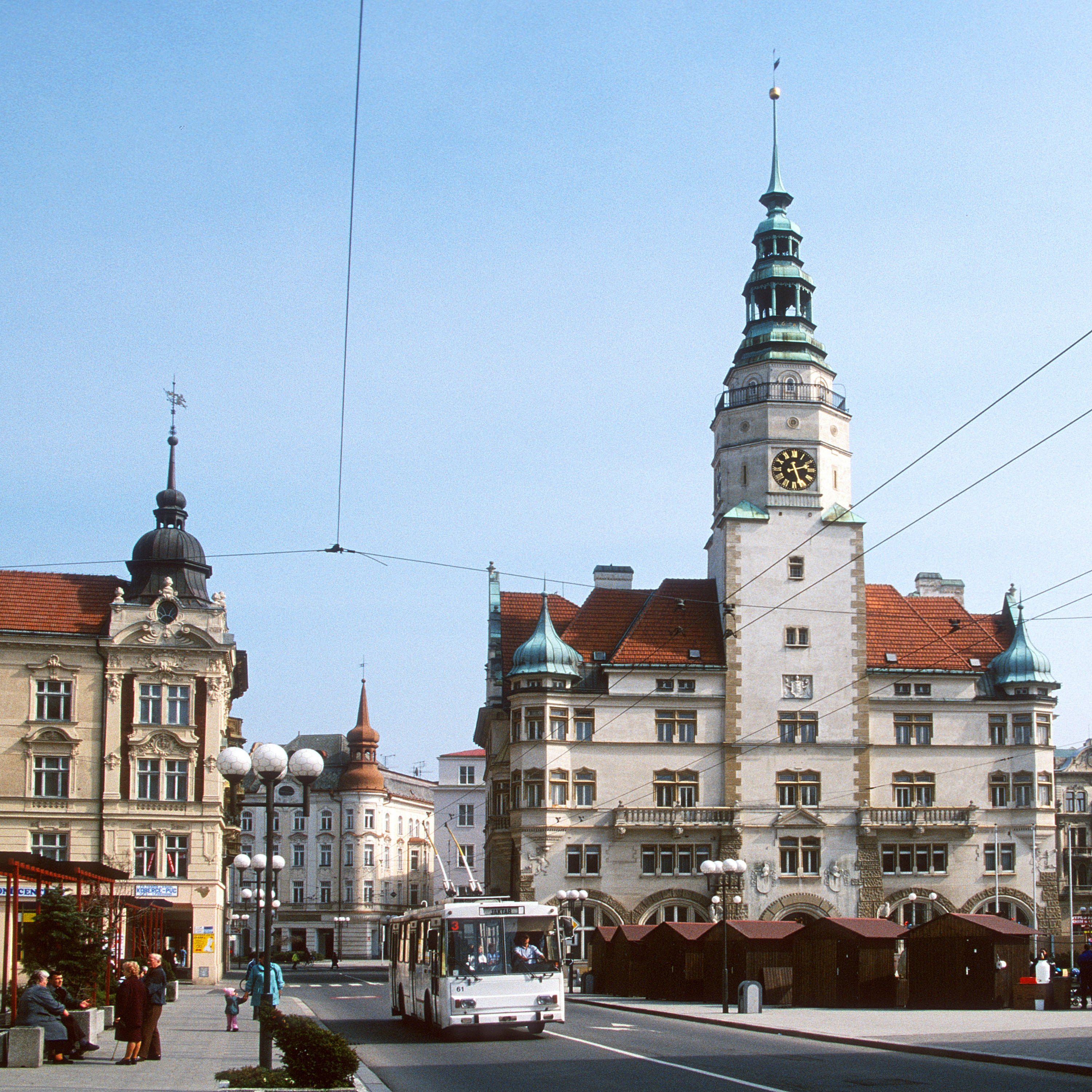 Opava townhall and Škoda 14Tr trolleybus